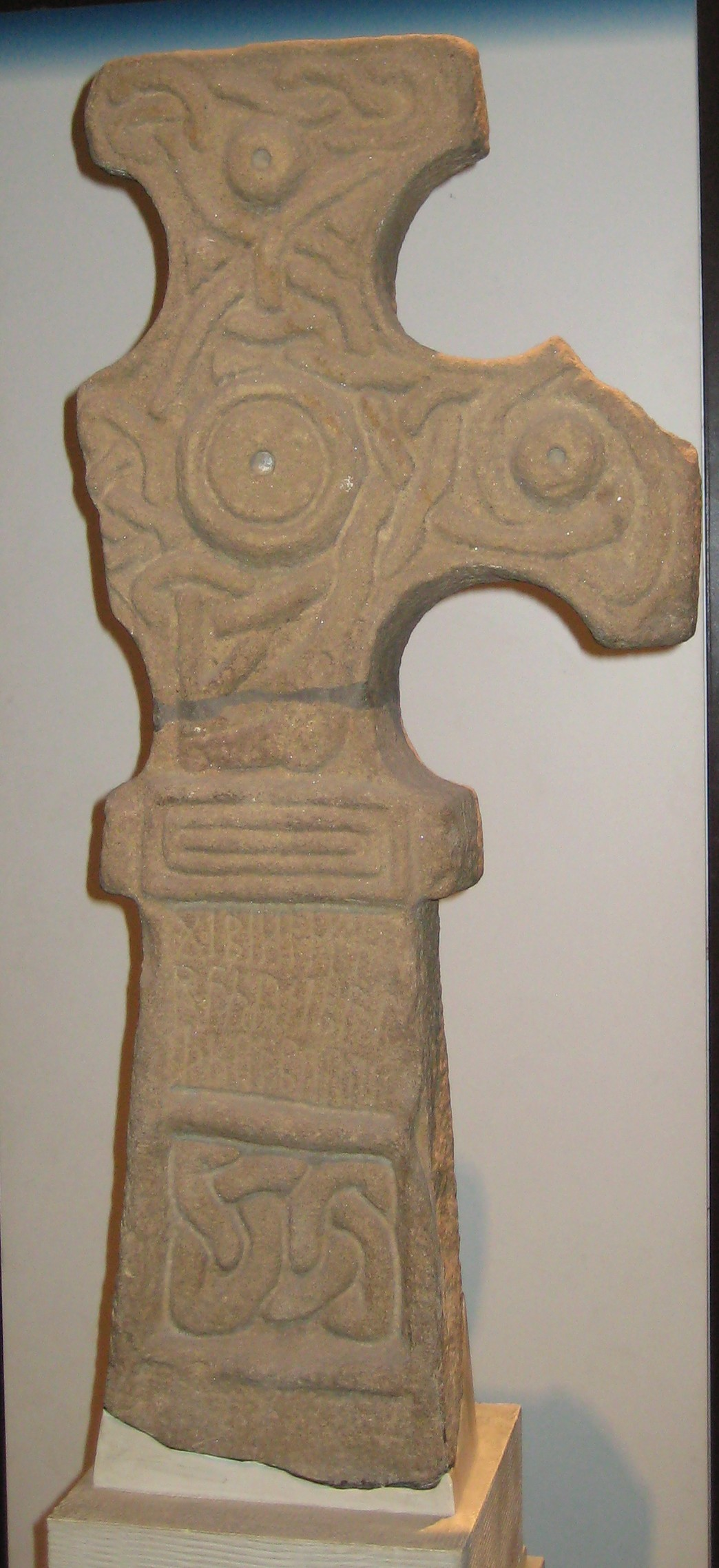 Stone cross fragment, known as the "Lancaster Cross", with the runic inscription ᚷᛁᛒᛁᛞᚫᚦᚠᚩ // ᚱᚫᚳᚣᚾᛁᛒᚪᛚ // ᚦᚳᚢᚦᛒᛖᚱᛖ[-] = gibidæþ foræ cynibalþ cuþbere[ht] ("Pray for Cynibalth, Cuthbert") in a panel at the bottom of the shaft.